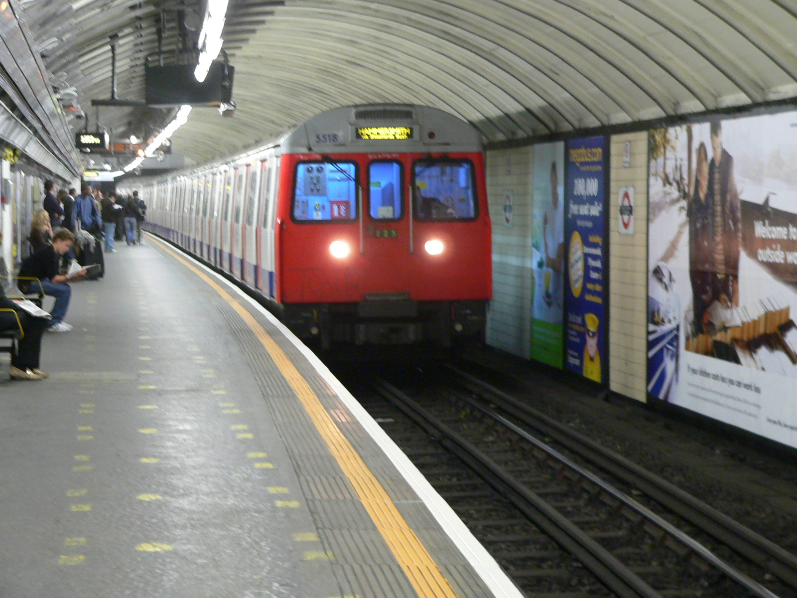 A London Underground C-stock train arrives into Kings Cross St Pancras sub-surface station with a westbound Hammersmith and City Line service to Hammersmith on 24 October 2005.